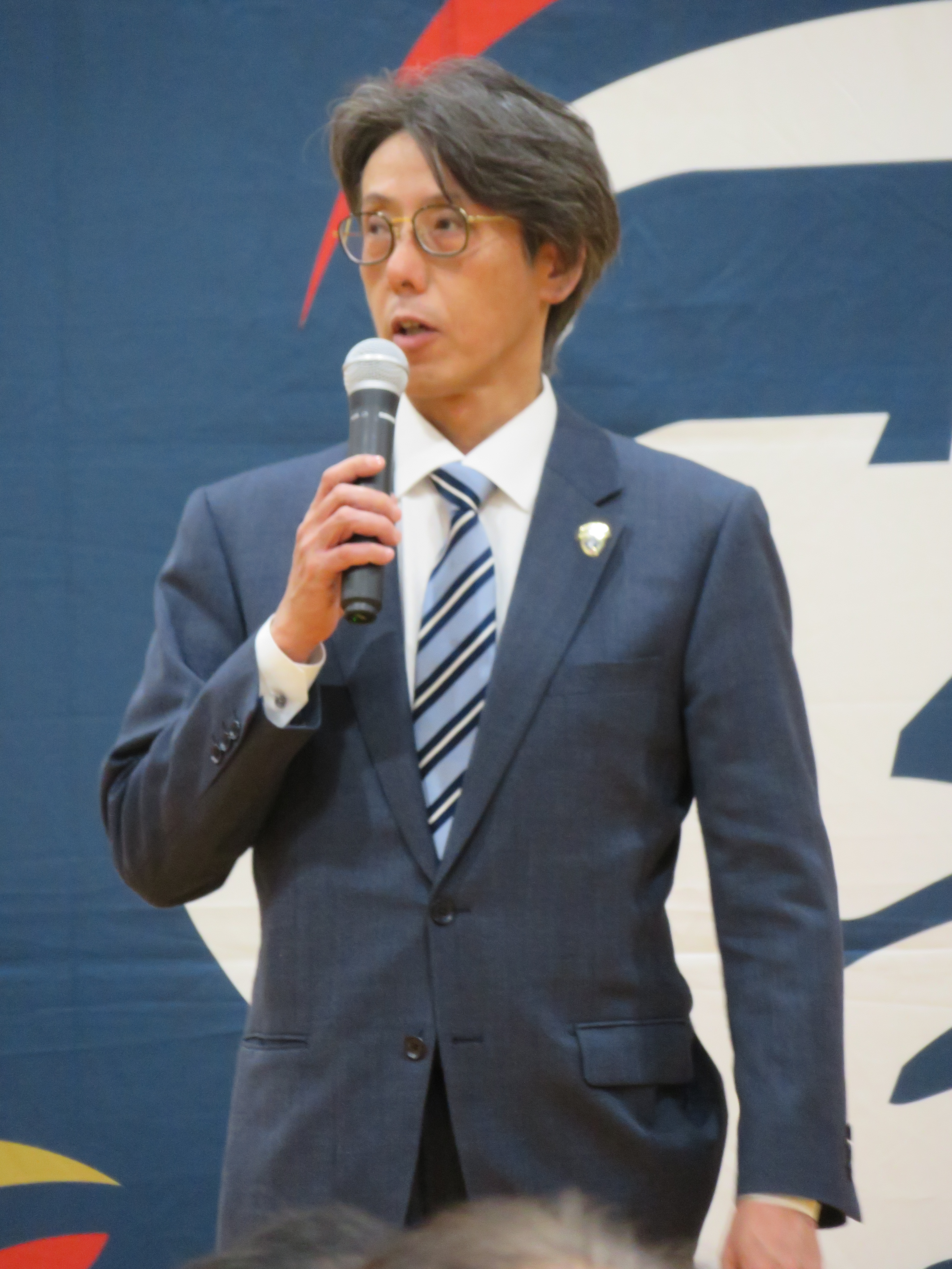 Yokohama B-Corsairs Fan Event 2019-5-19